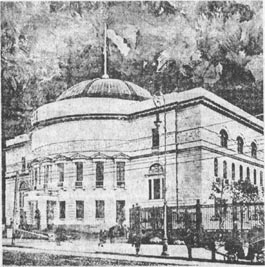 A photomontage of the building of Ukrainian Central Rada.